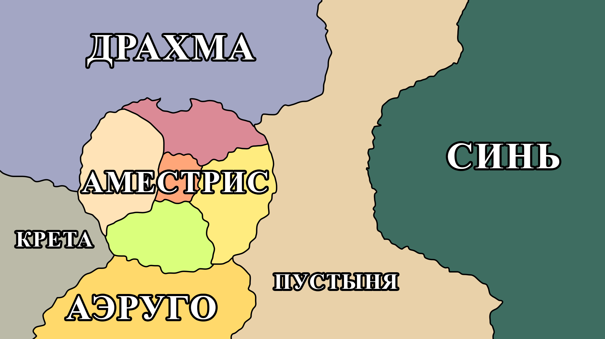 Map of Fullmetal Alchemist world in Russian